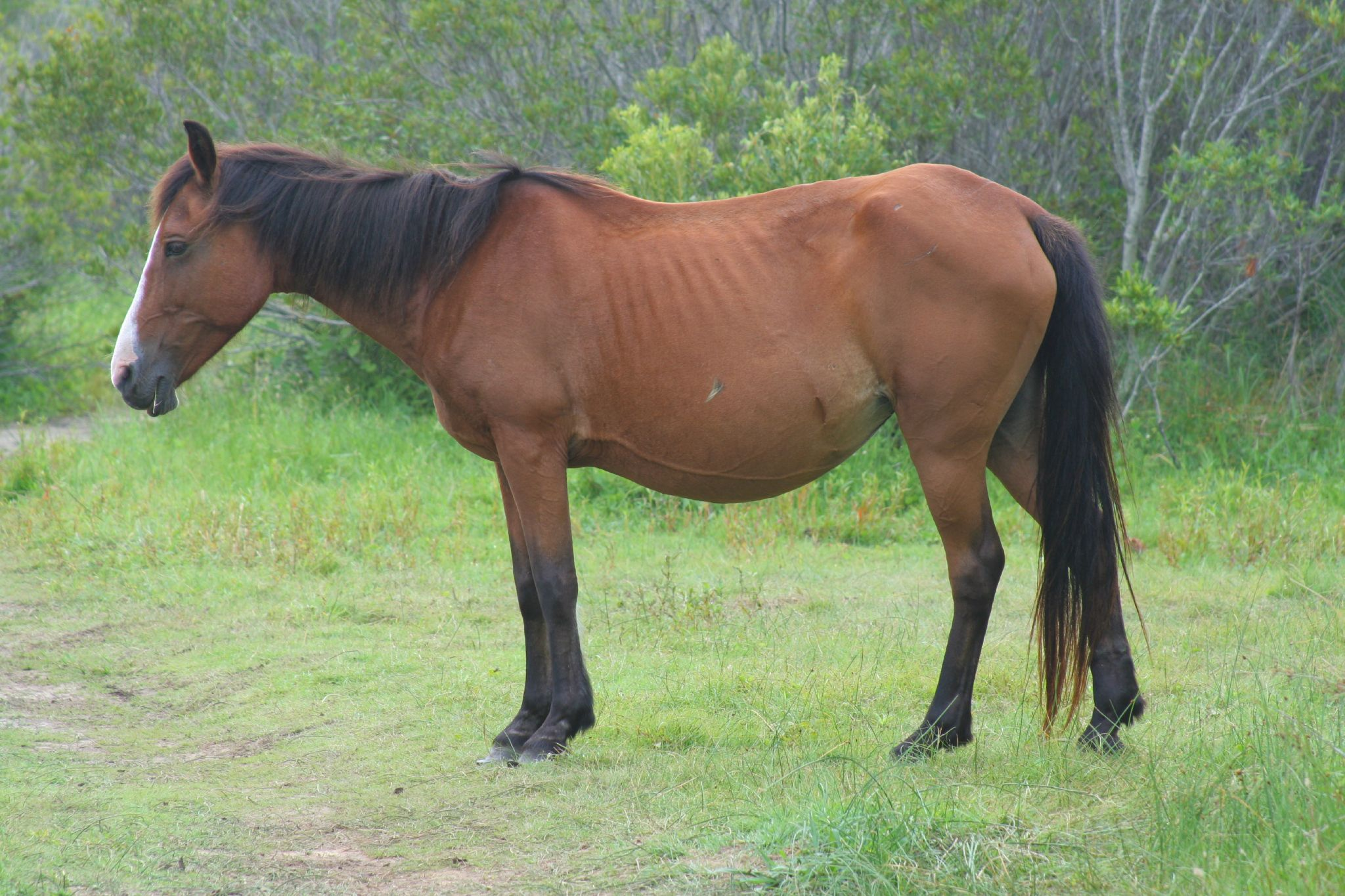 Wild Horse of the Outer Banks